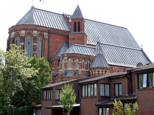 All Saints' parish church, Rosendale Road, West Dulwich, London, seen from the northeast